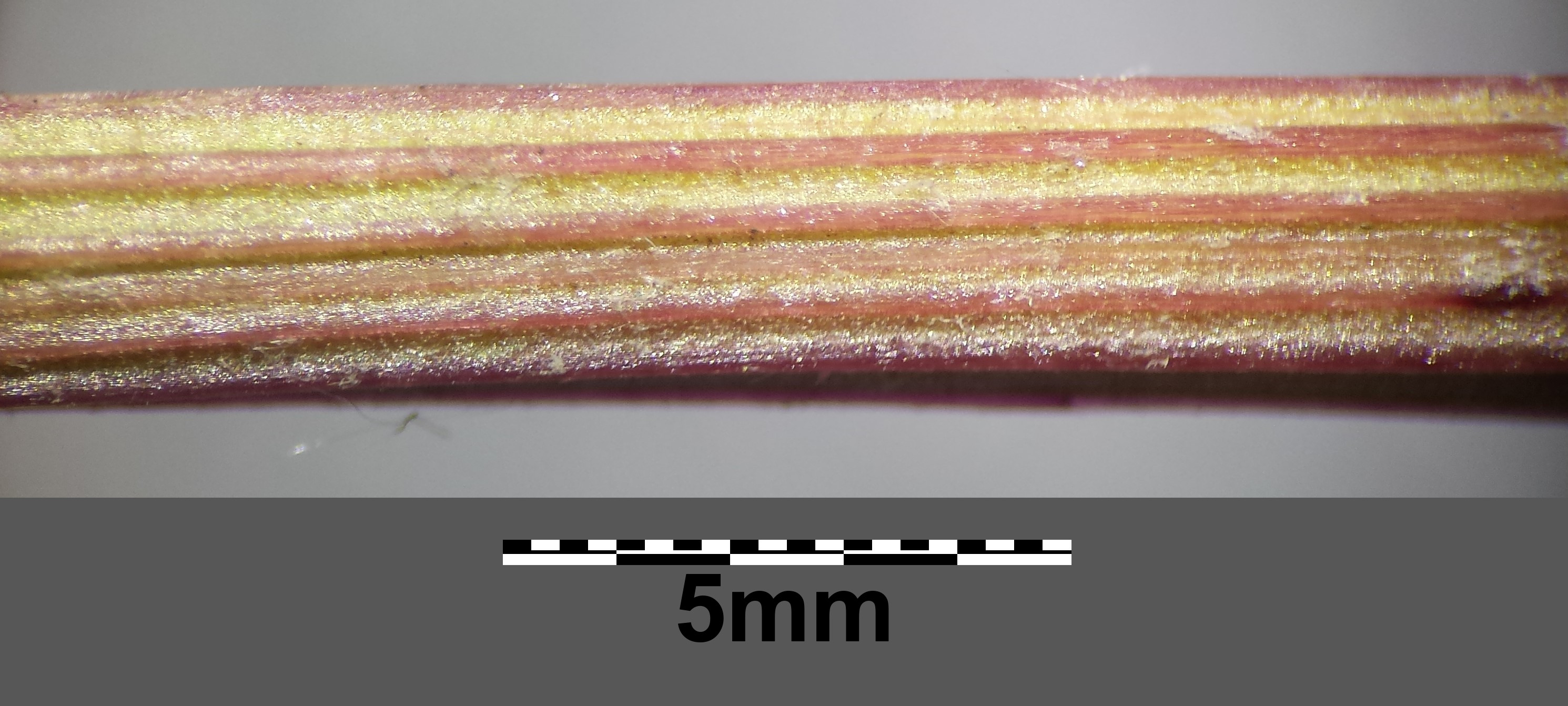 Sulcate upper part of stem Taxonym: Scorzonera cana ss Fischer et al. EfÖLS 2008 ISBN 978-3-85474-187-9 Location: next to Strebersdorf cemetery, Floridsdorf, Vienna - ca. 160 m a.s.l. Habitat: dry meadows